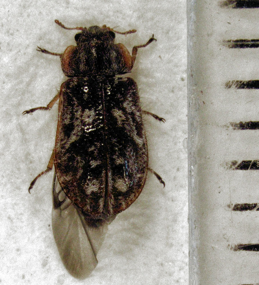 Grynoma sp.